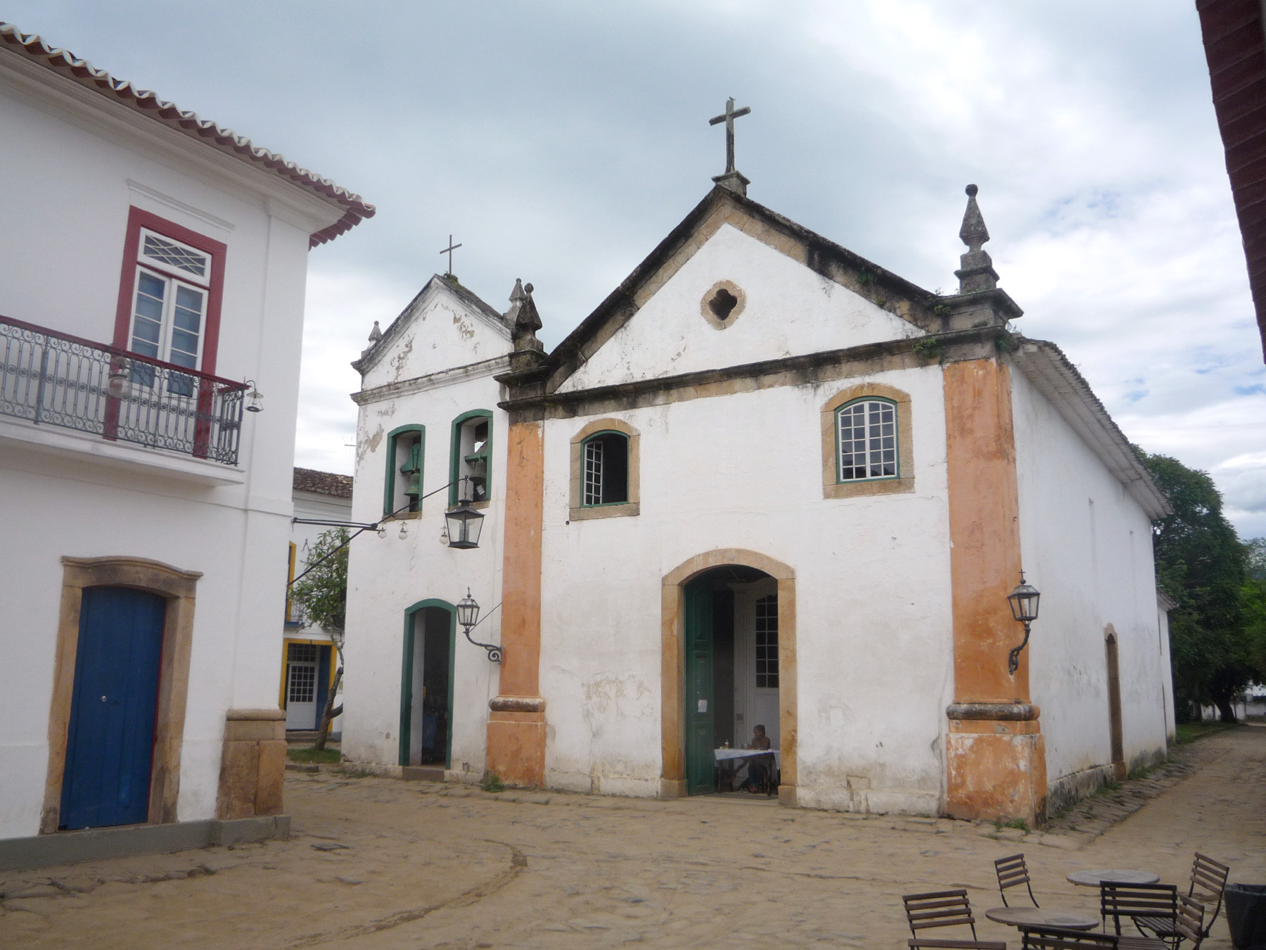 Nossa Senhora do Rosário Church in Paraty, Brasil